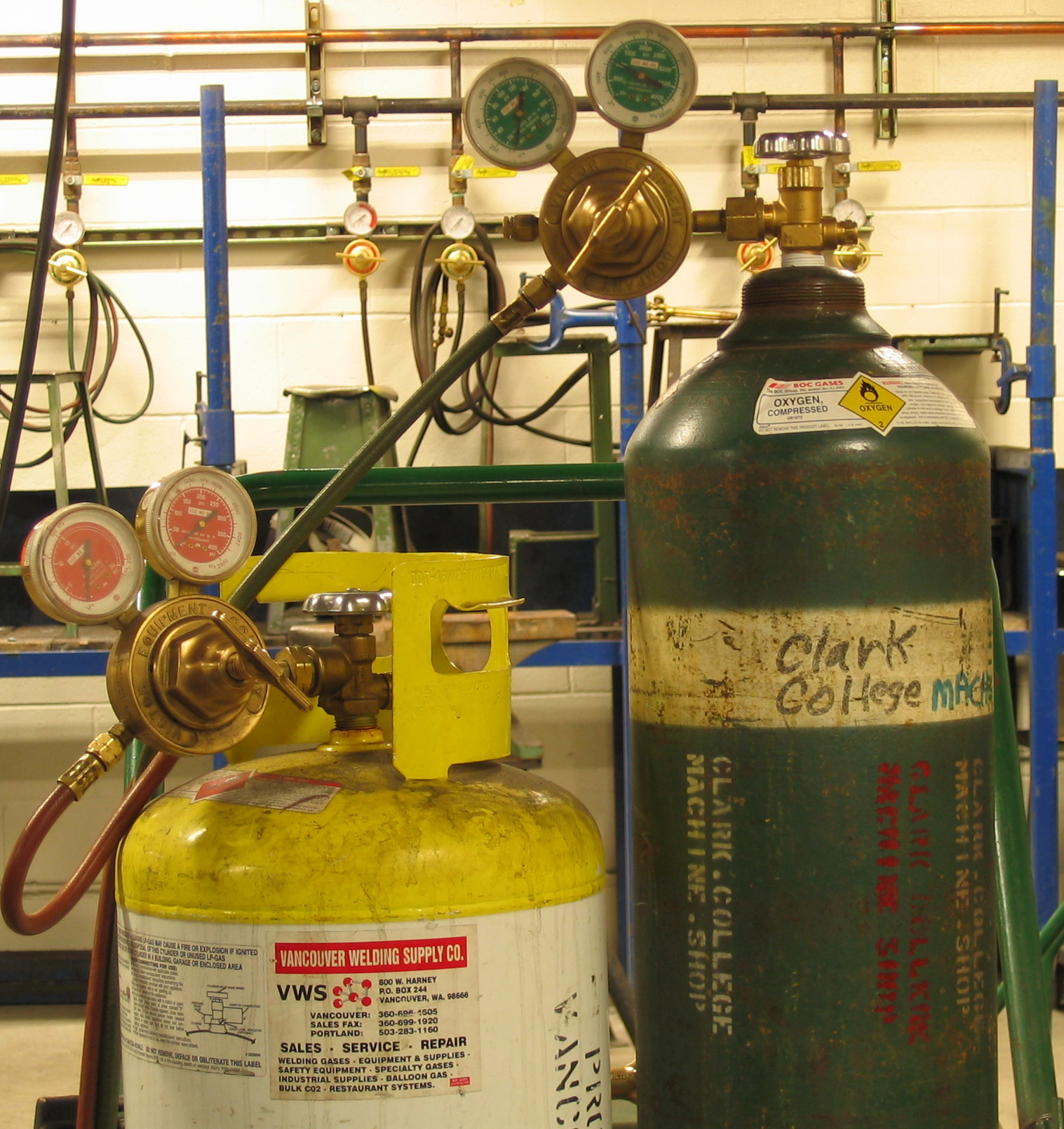 Oxygen and MAPP gas compresed gas cylinders with regulators. The high pressure side of the oxygen regulator reads 1,000 PSI (69 bar). The tremendous pressure inside the oxygen cylinder (over 2,200 PSI (152 bar) in a full tank) requires extrusion as a manufacturing process and these tanks may never be welded. The lower pressure MAPP cylinder was welded together and the seam is visible where the yellow and white paint meet.